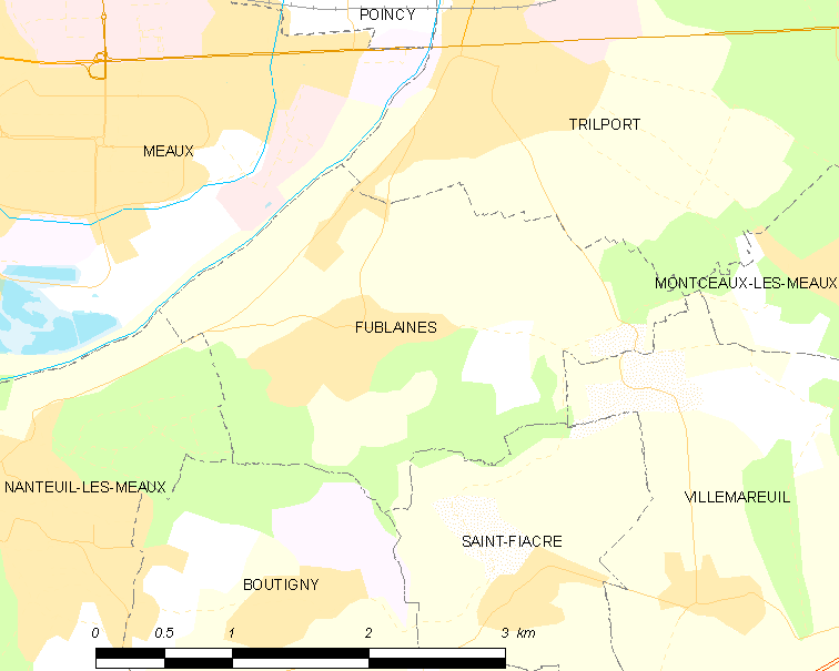 Map of French municipality Fublaines